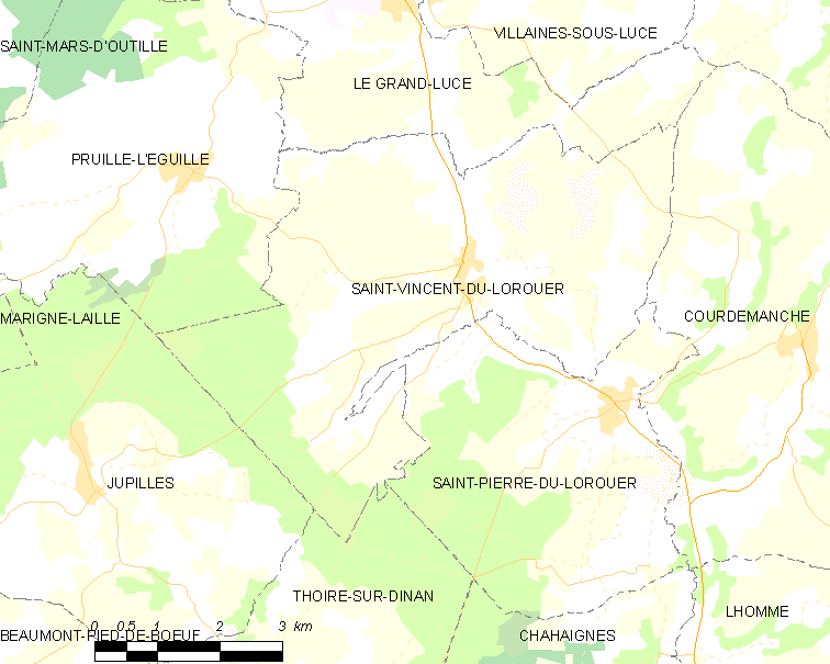 Map of French municipality